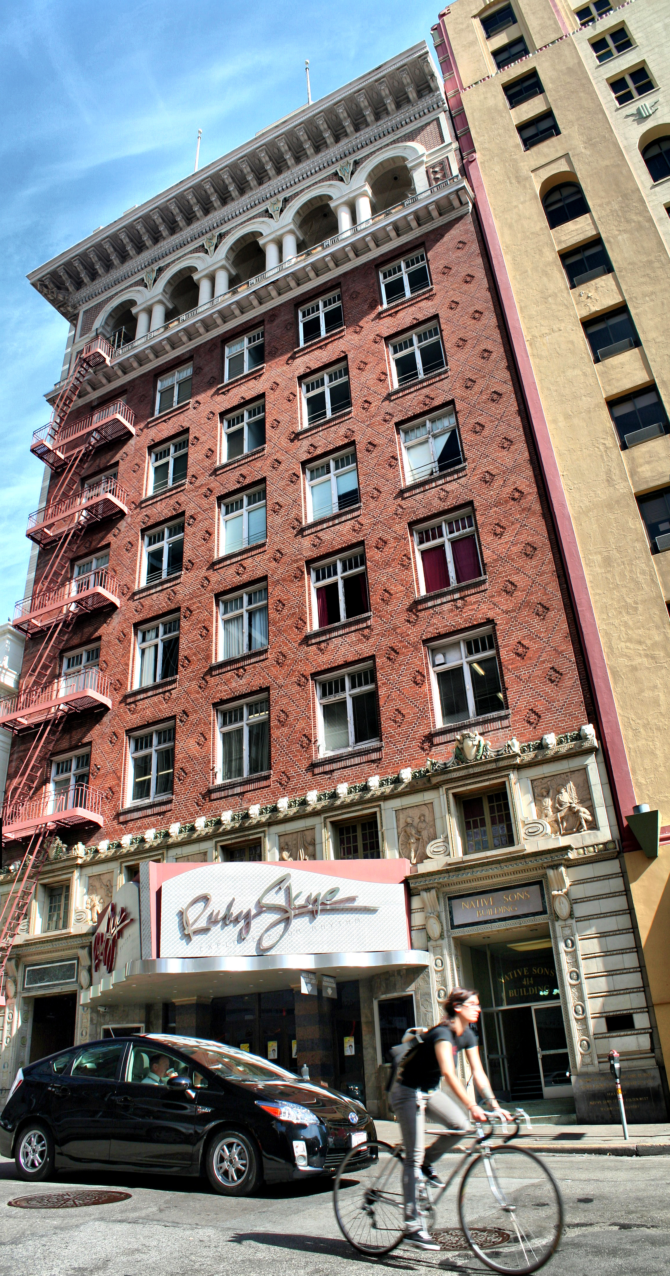 Ruby Skye nightlcub in Native Sons of the Golden West building, San Francisco, California.